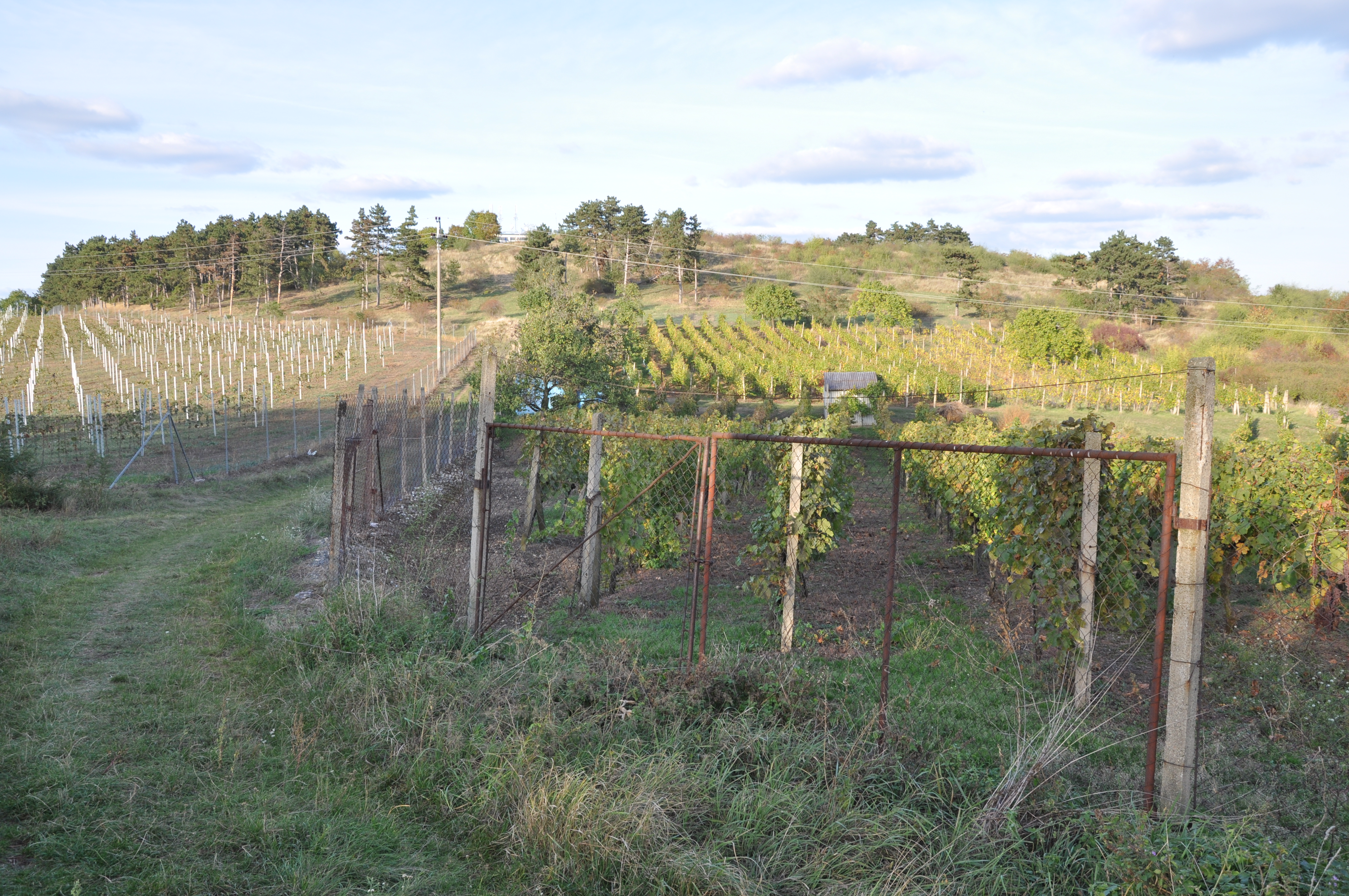 National natural monument Miroslavské kopce in Znojmo District, Czech Republic